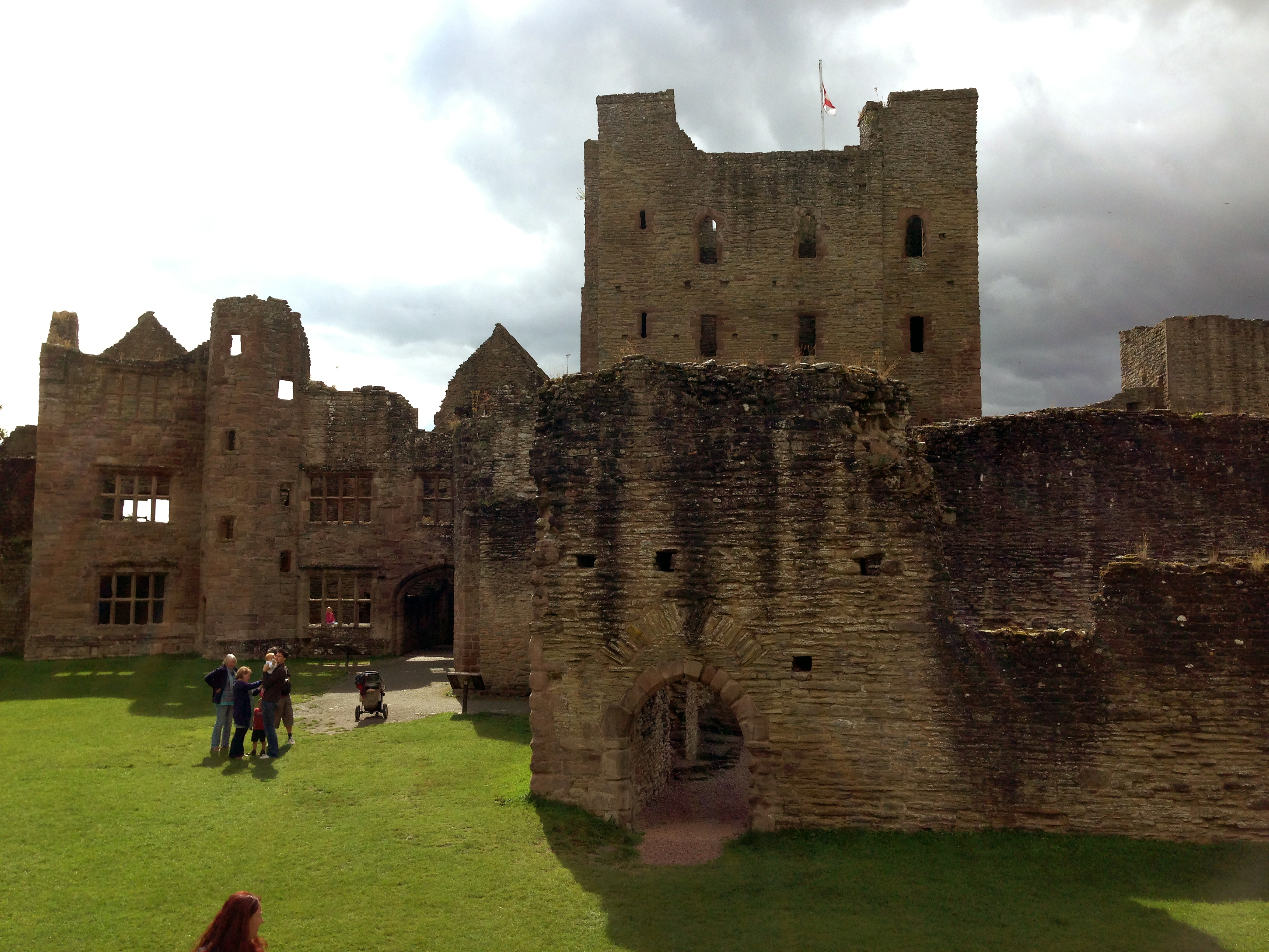 Great Kitchen at Ludlow Castle